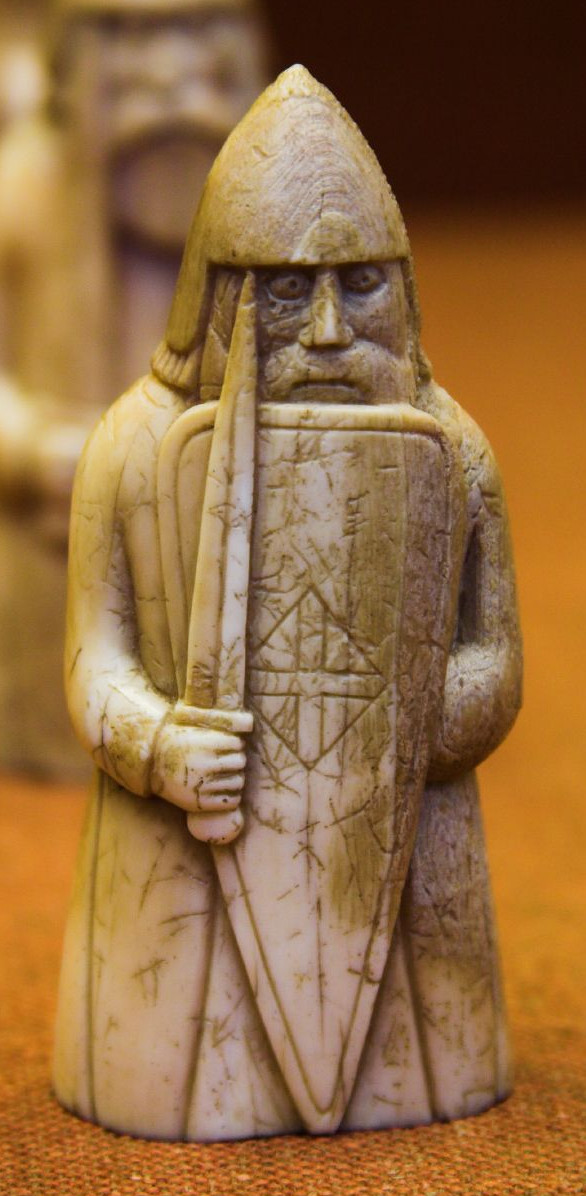 One of the Lewis chessmen. This is a cropped version of File:Lewis Chessman, British Museum.jpg.